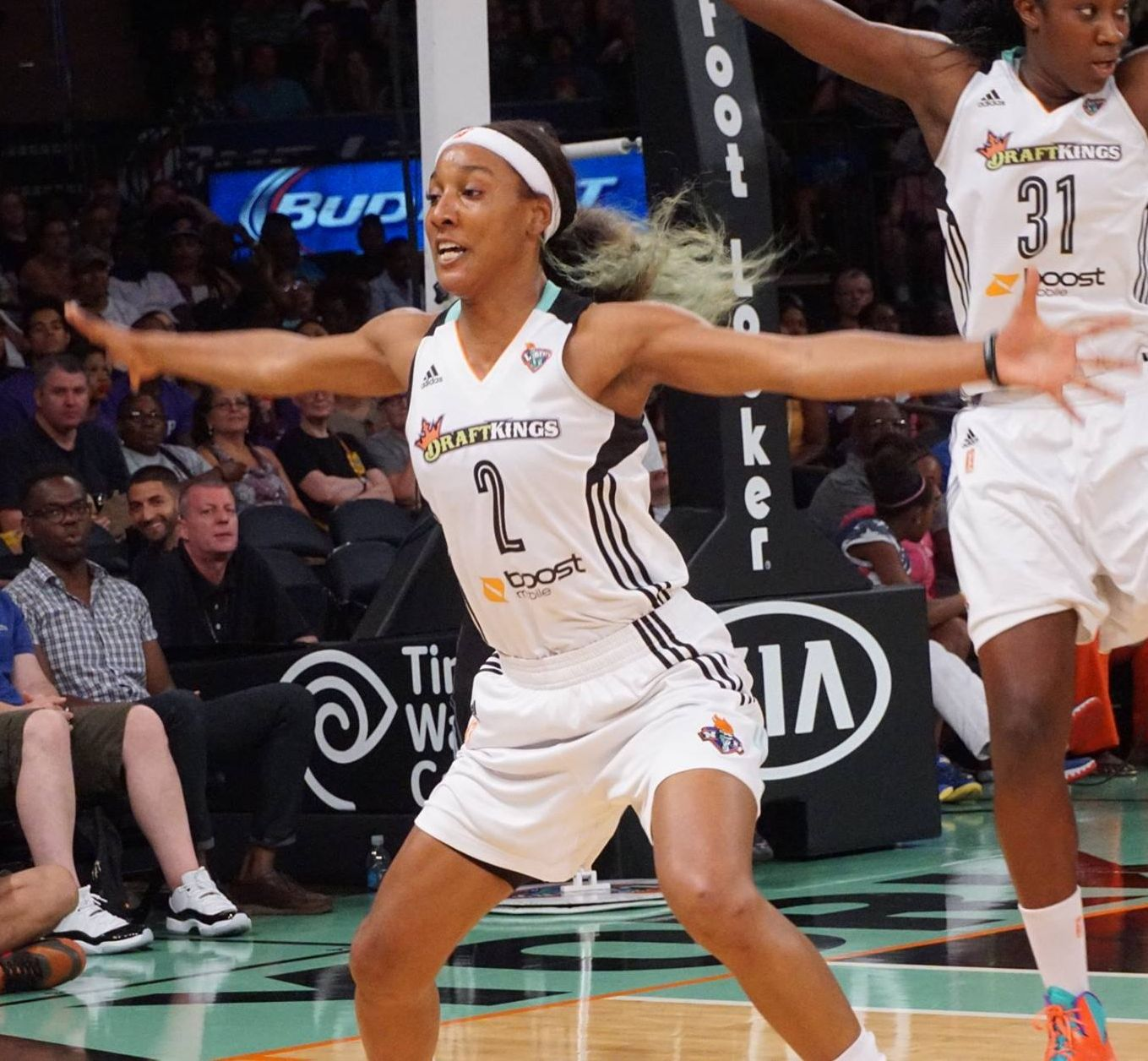 Candice Wiggins at 2 August 2015 game